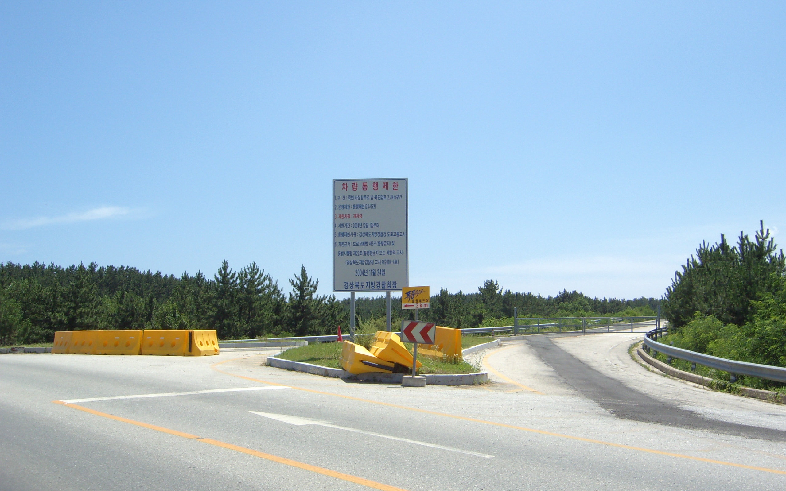 Jukbyeon emergency airstrip north entrance